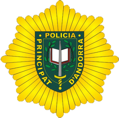 Logo of the Police Corps of Andorra